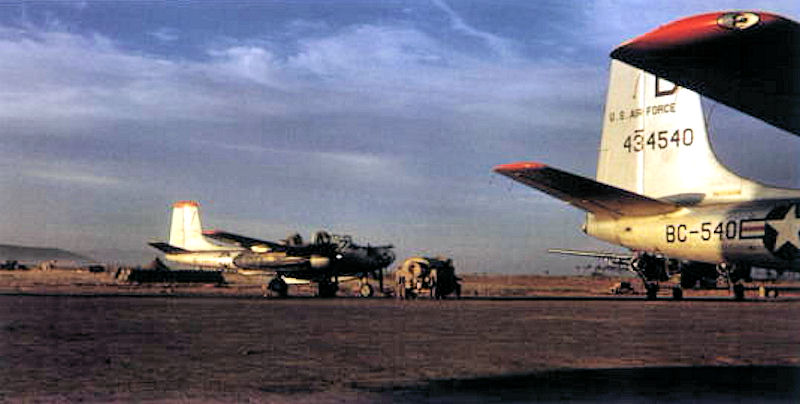 13th Bombardment Sqauadron Tageu AB October 1950 Douglas A-26B-61-DL Invader 44-34540 visible